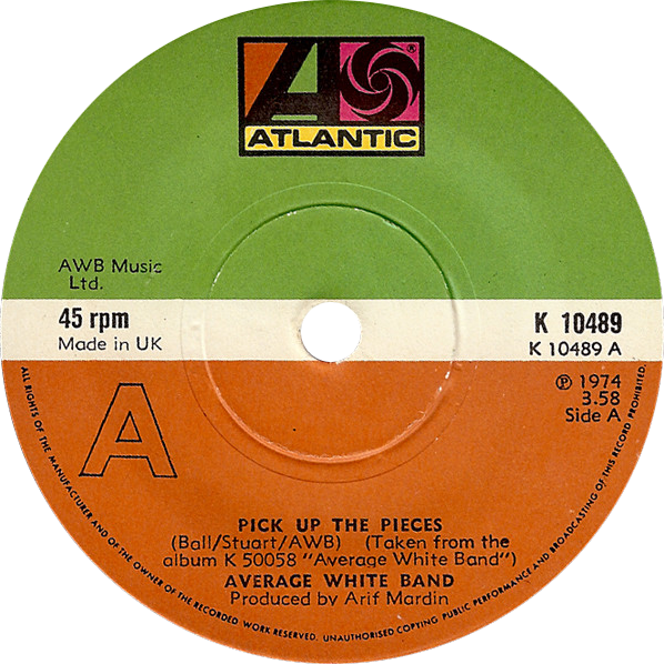 Side-A label of UK vinyl single "Pick Up the Pieces" by Average White Band